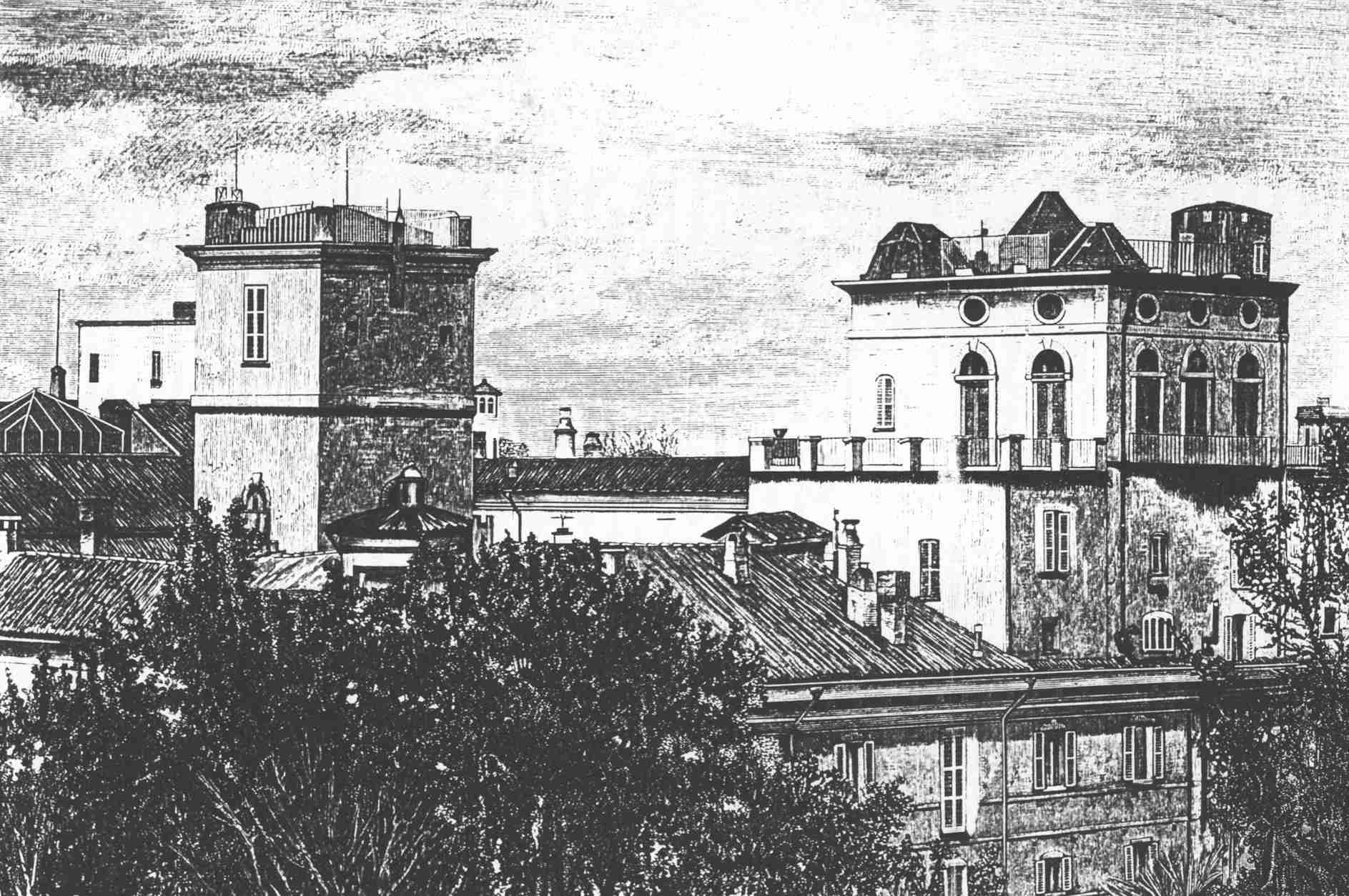 The building housing Brera Astronomical Observatory, Milan, Italy. The domes designed from Boscovich. Engraving.